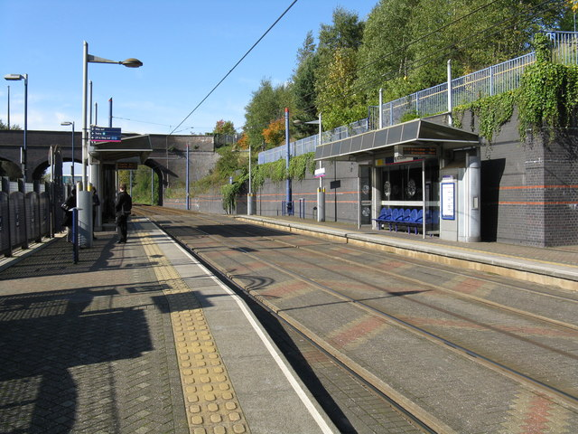 The Hawthorns tram stop Part of the Midland Metro tram system.